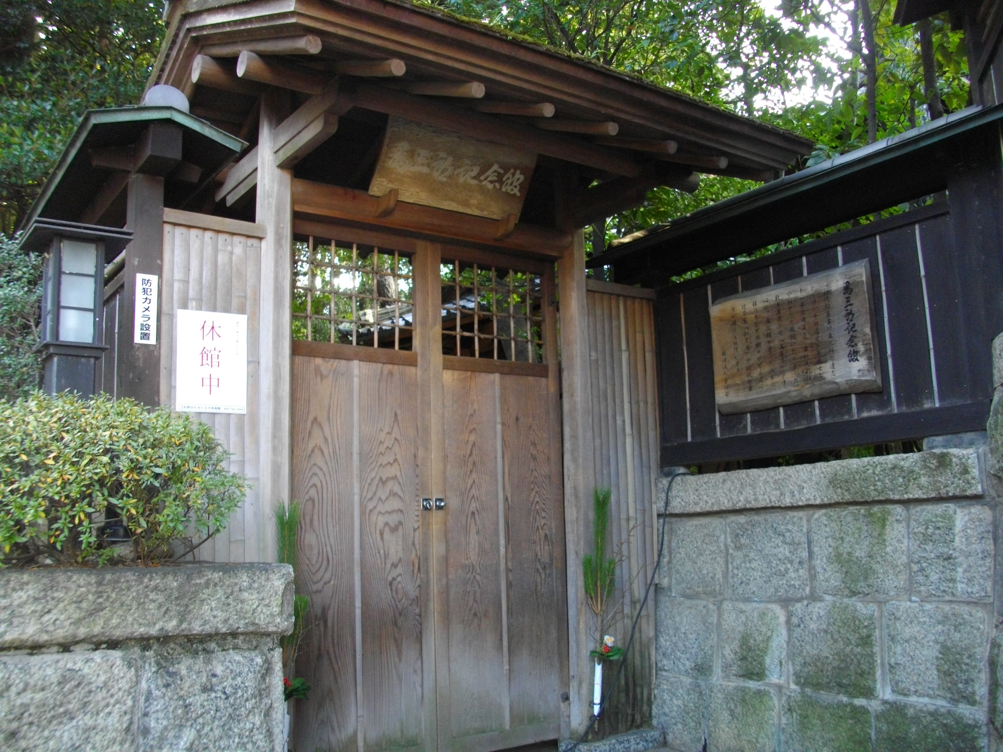 Tamesaburo Memorial Museum